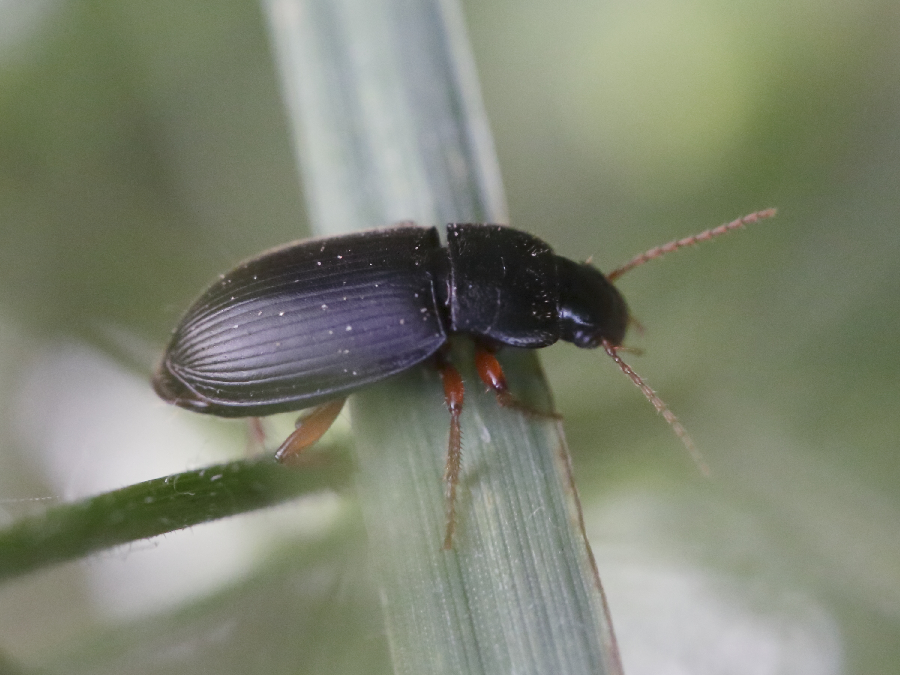 L: 11-16 mm Phylum: Arthropoda Subphylum: Hexapoda BLAINVILLE, 1816 Class: Insecta (insects, Insekten) Subclass: Pterygota (Fluginsekten) Infraclass:Neoptera MARTYNOV, 1923 Order: Coleoptera LINNAEUS, 1758 (beetles, Käfer) Suborder: Adephaga SCHELLENBERG, 1806 Family: Carabidae LATREILLE, 1802 (ground and tiger beetles) Subfamily: Harpalinae BONELLI, 1810 Tribus: Harpalini BONELLI, 1810 Subtribus:Harpalina BONELLI, 1810 Genus: Pseudoophonus MOTSCHULSKY, 1844 [Harpalus ?] Subgenus: Pseudoophonus MOTSCHULSKY, 1844 Pseudoophonus rufipes DE GEER, 1774 (Behaarter Schnellläufer) more info (German): Germany, Niedersachsen, vic. Müden (Aller), 05.07.2013 IMG_1546